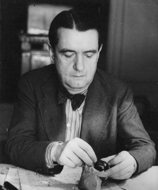 French classical composer and film score composer Georges Auric (1899-1983)